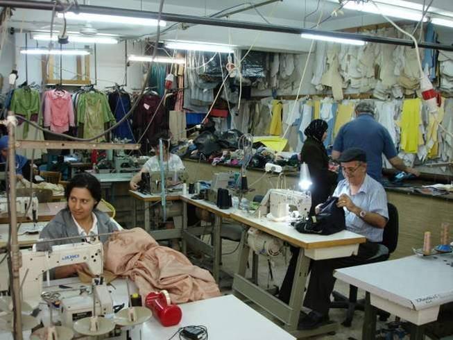 Mourad’s Bethlehem workshop. Photo credit: David Pratt, DFID